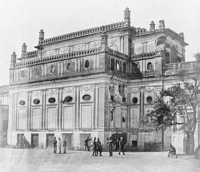 The Indian Mutiny 1857-1859 Begum Kotee, or Queen's House, Lucknow. In this building, which was the residence of the Queen of Oudh, was found 'much rich spoils'. A number of Madras Fusliers standing in front of the building.